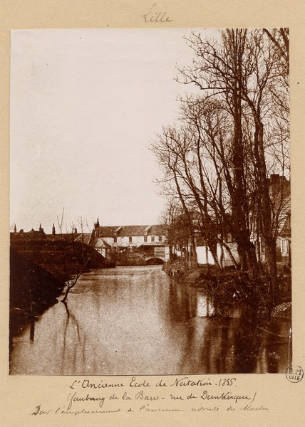 Lille : L’ancienne école de natation, faubourg de la Barre, rue de Dunkerquedate : 1855 [1855]dimensions : 16,3 x 20,1 cm.